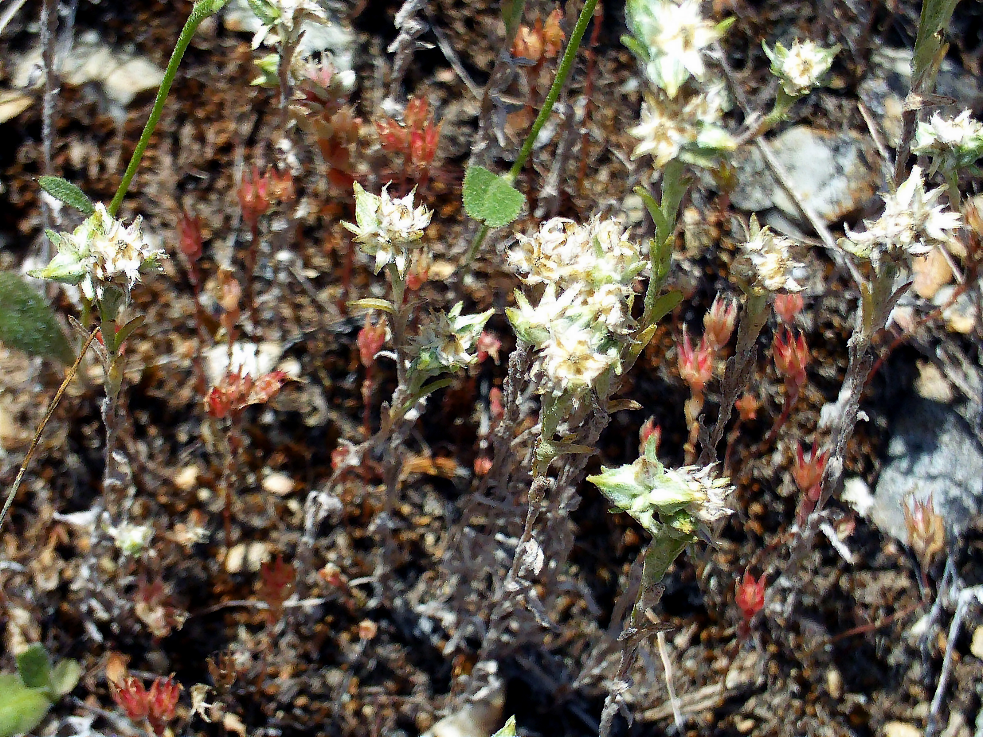 Sedum caespitosum close up, Sierra Madrona, Spain.